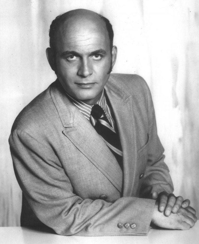 Publicity photograph of Gavin MacLeod as Murray Slaughter (named "a superefficient television newswriter") of then-upcoming show The Mary Tyler Moore Show (credited in opening as Mary Tyler Moore)